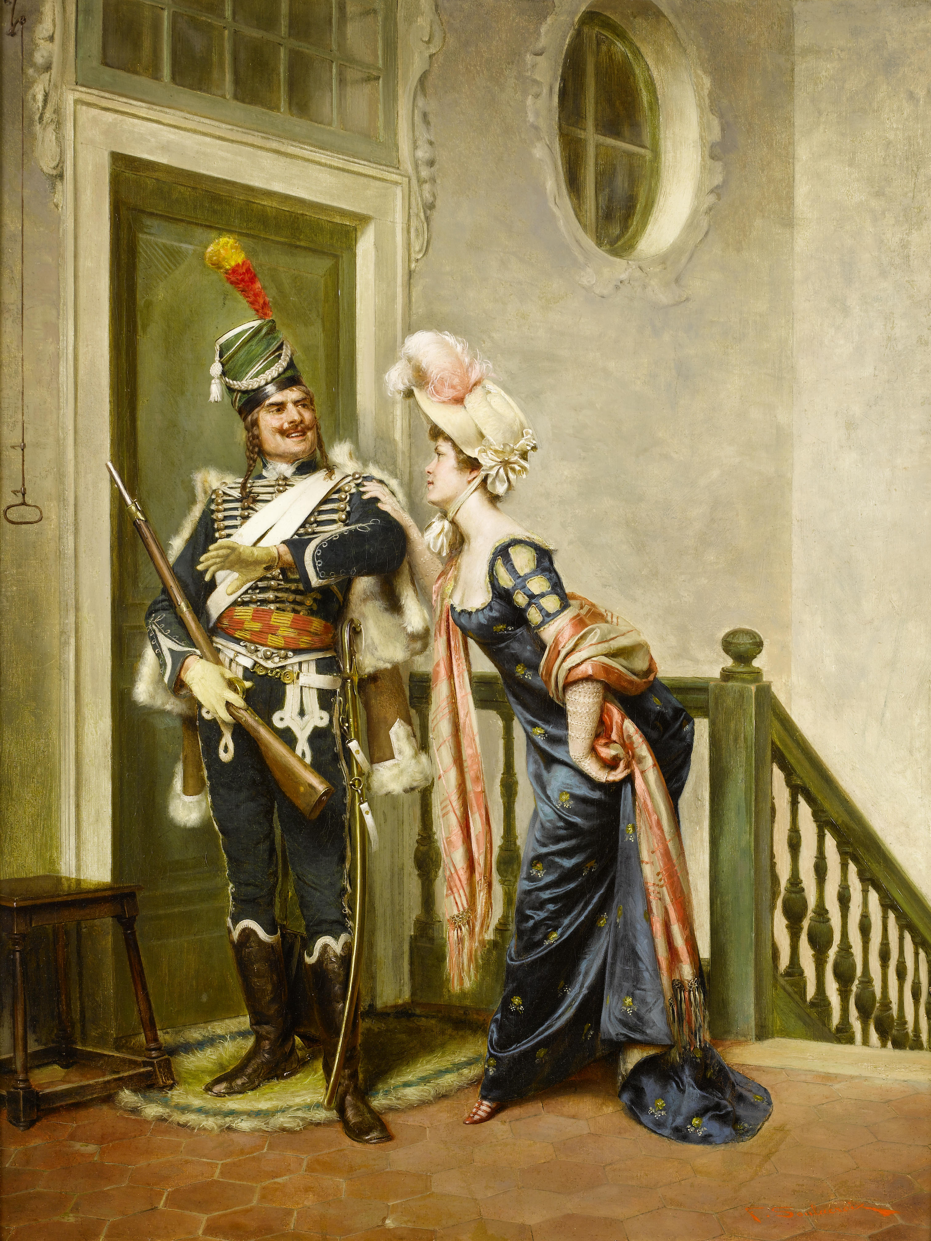 The gallant officer. Signed F.Soulacroix. Oil on canvas, 82 x 62 cm